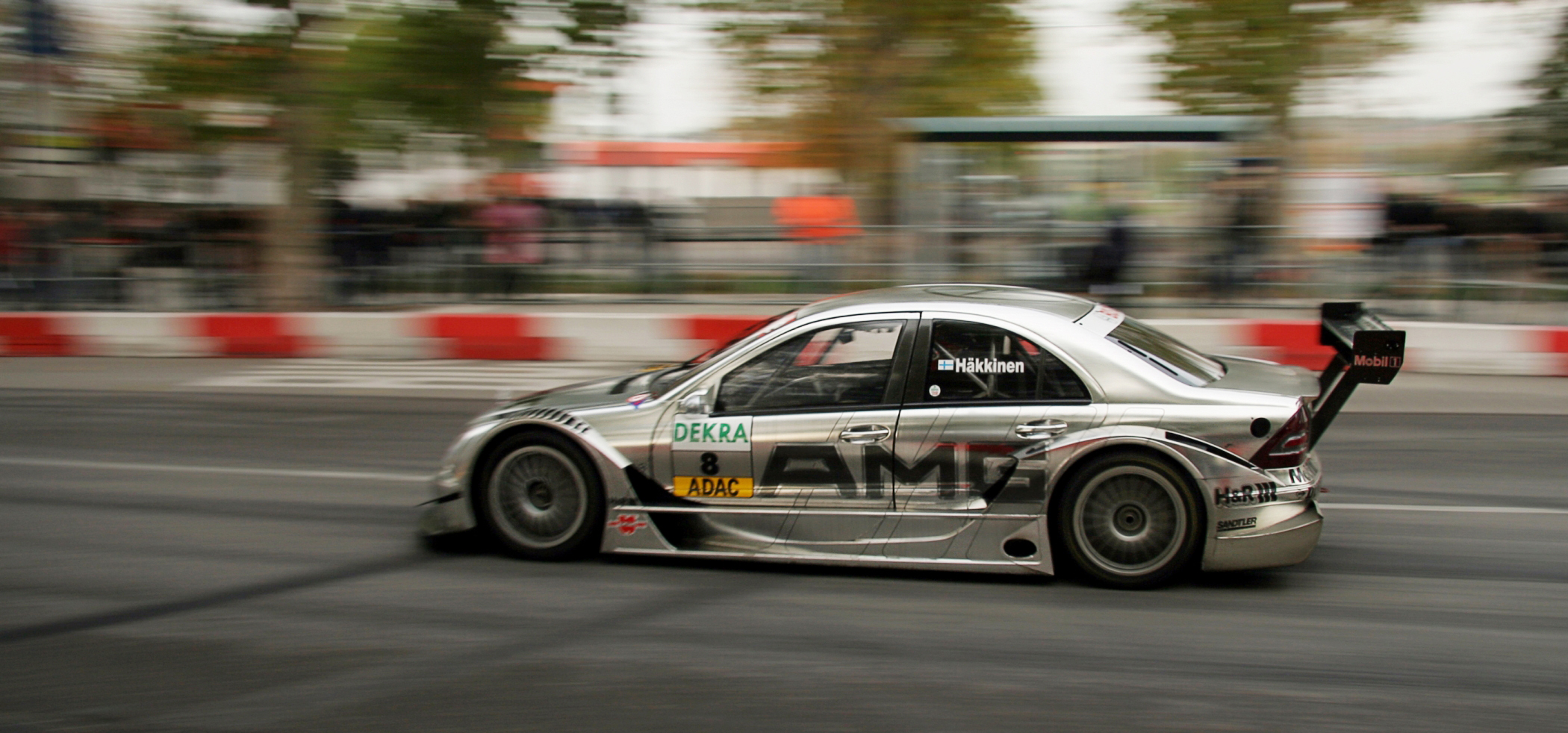 DTM car Mercedes-Benz AMG 2006 (C-Class, W203), Mika Häkkinen (driver).